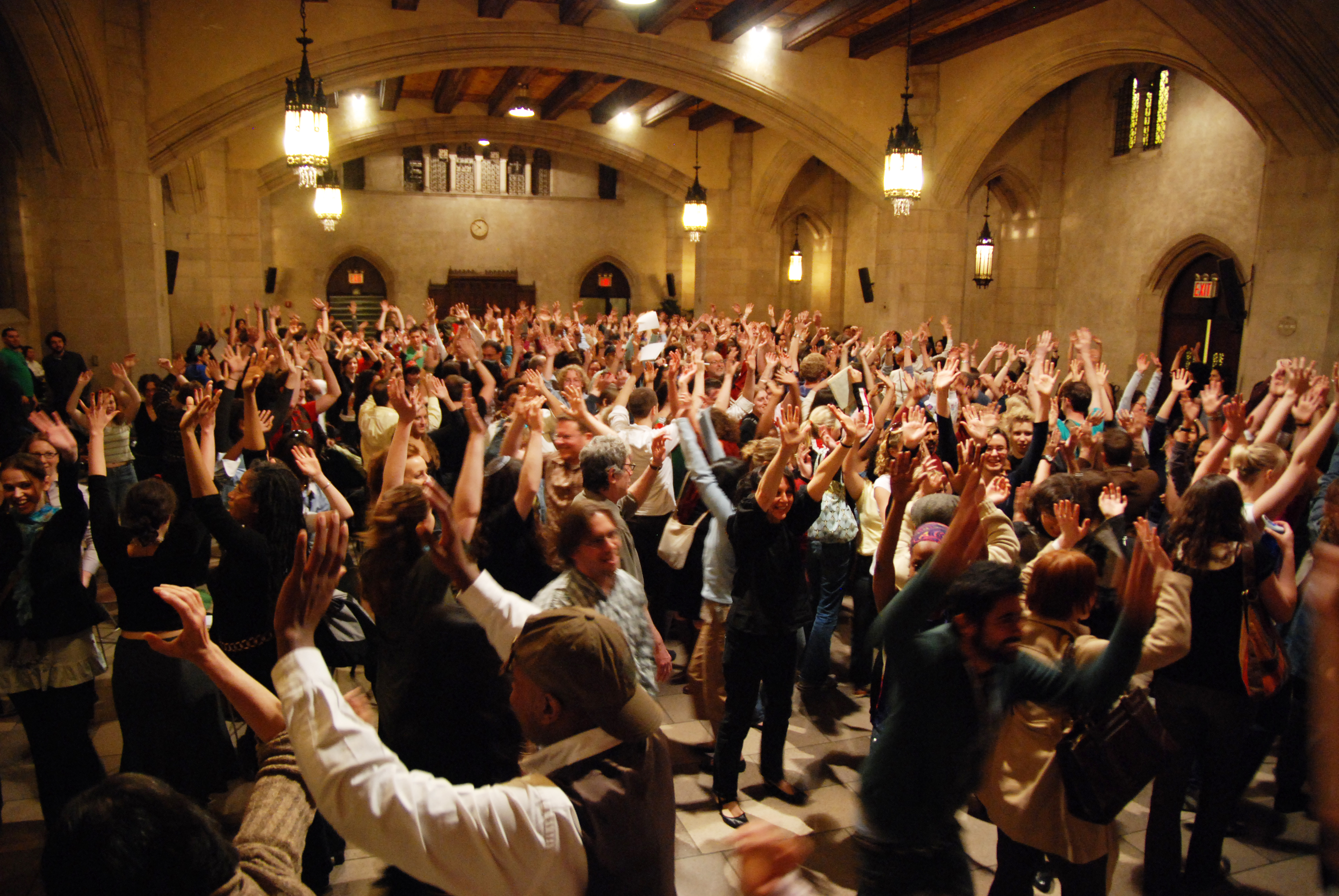 Participants in the Theatre of the Oppressed workshop presented by Brazilian theater director and writer Augusto Boal at Riverside Church in New York City.